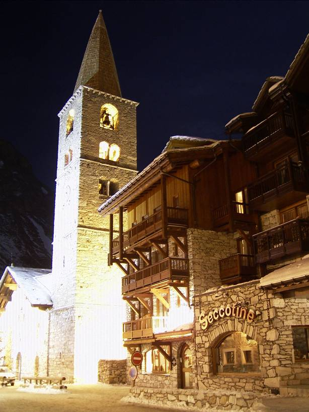 Val d'Isère church dedicated to St Bernard de Menthon and built in 1664. Picture taken by David George[1] (Davidof 10:42, 17 August 2006 (UTC)) of and made available to the Wikipedia commons.